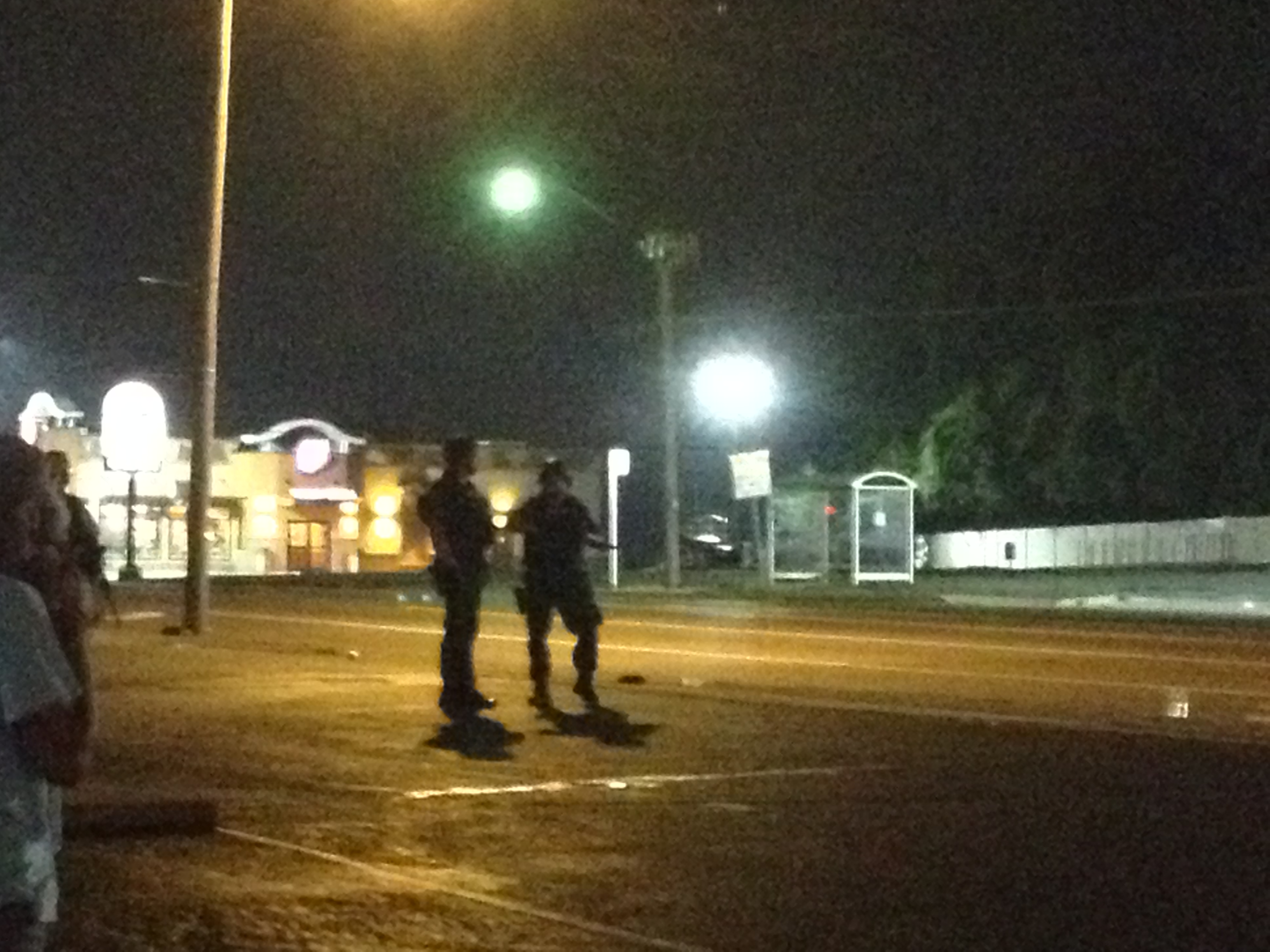 Riot police standing around.